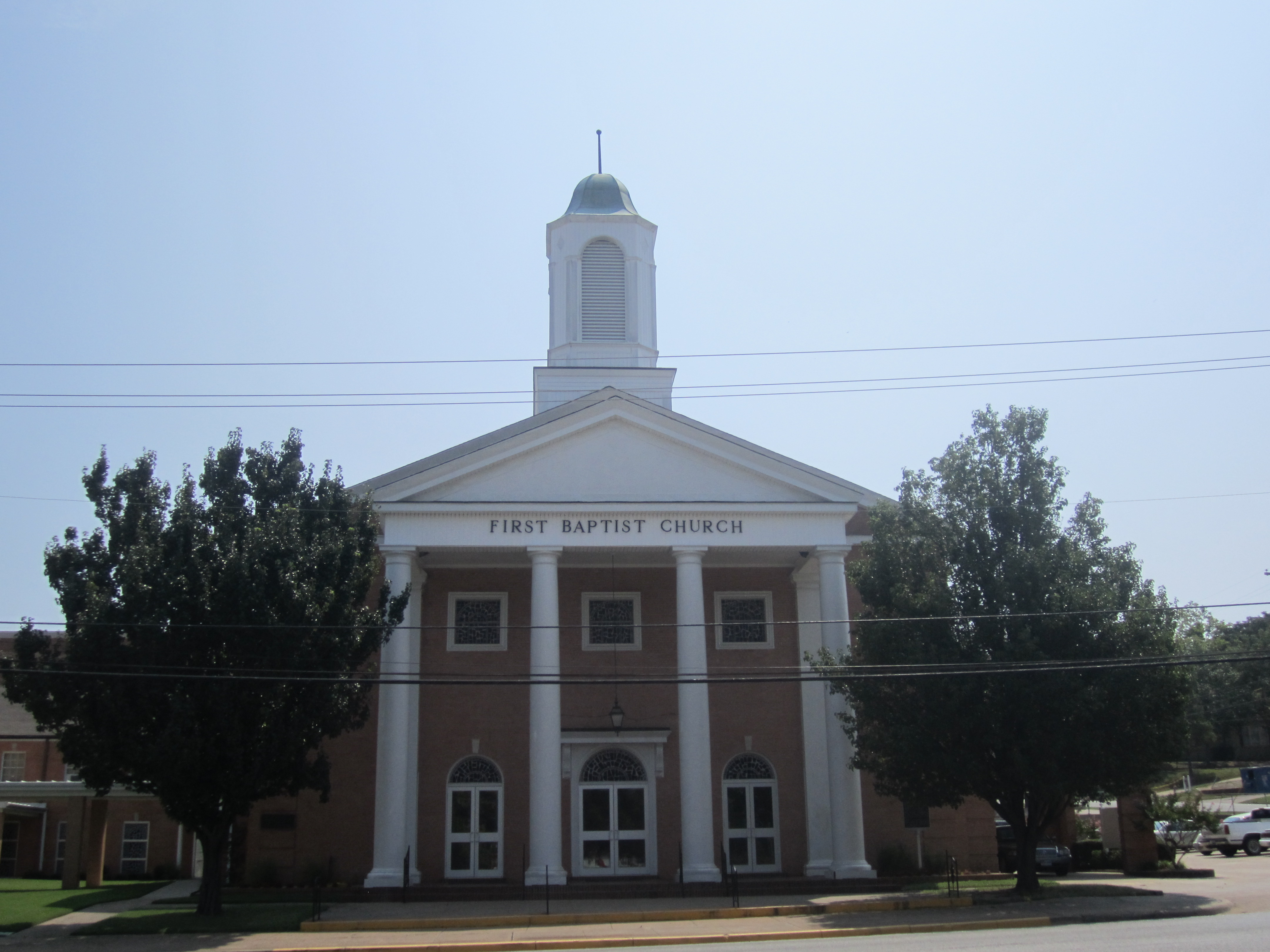 I took photo with Canon camera in Athens, TX.